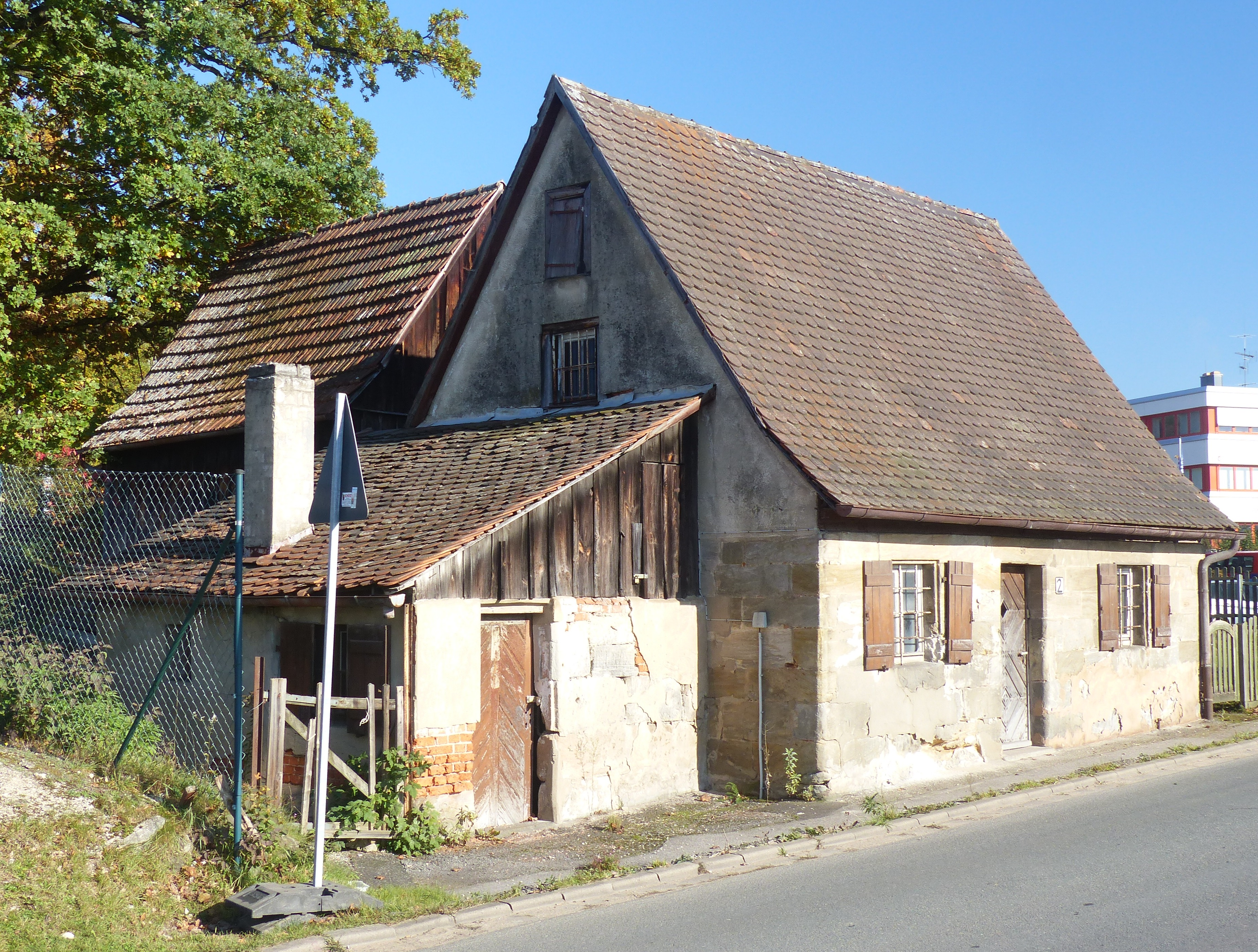 Chausseehaus (road hut) near of the Bundesstraße 14 in Bräunleinsberg, part of the municipality of Ottensoos